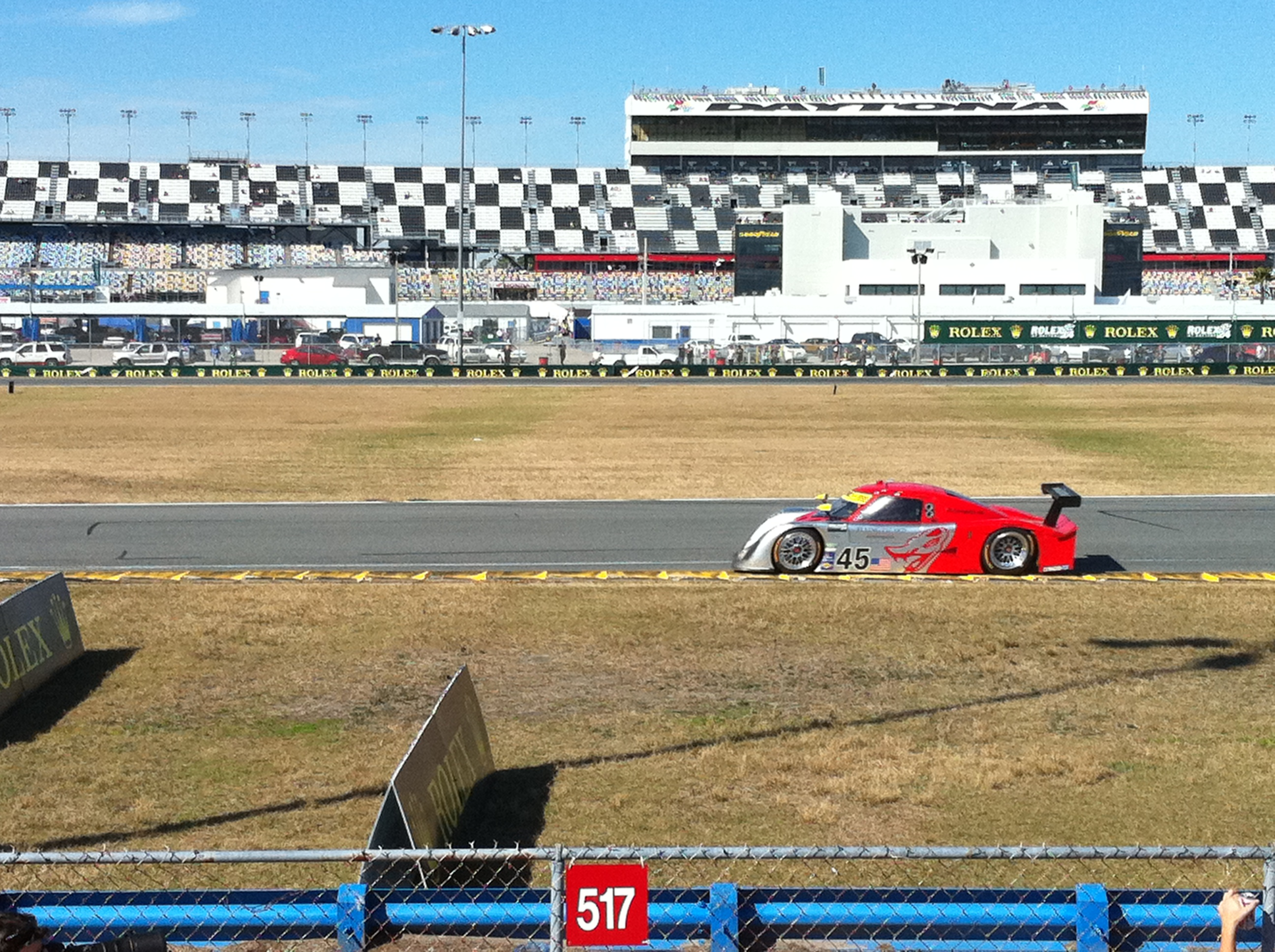 The Flying Lizards DP car from 2011 24 Hours of Daytona